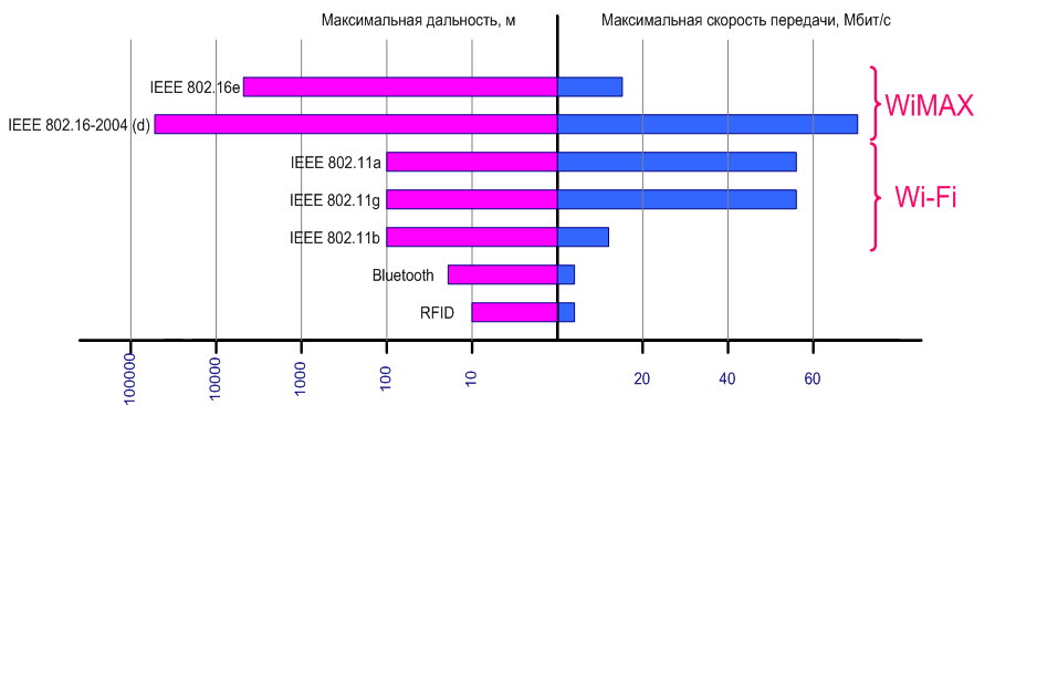 Classification of wireless technologies